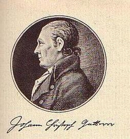 Johann Christoph Gatterer, Portrait with signature